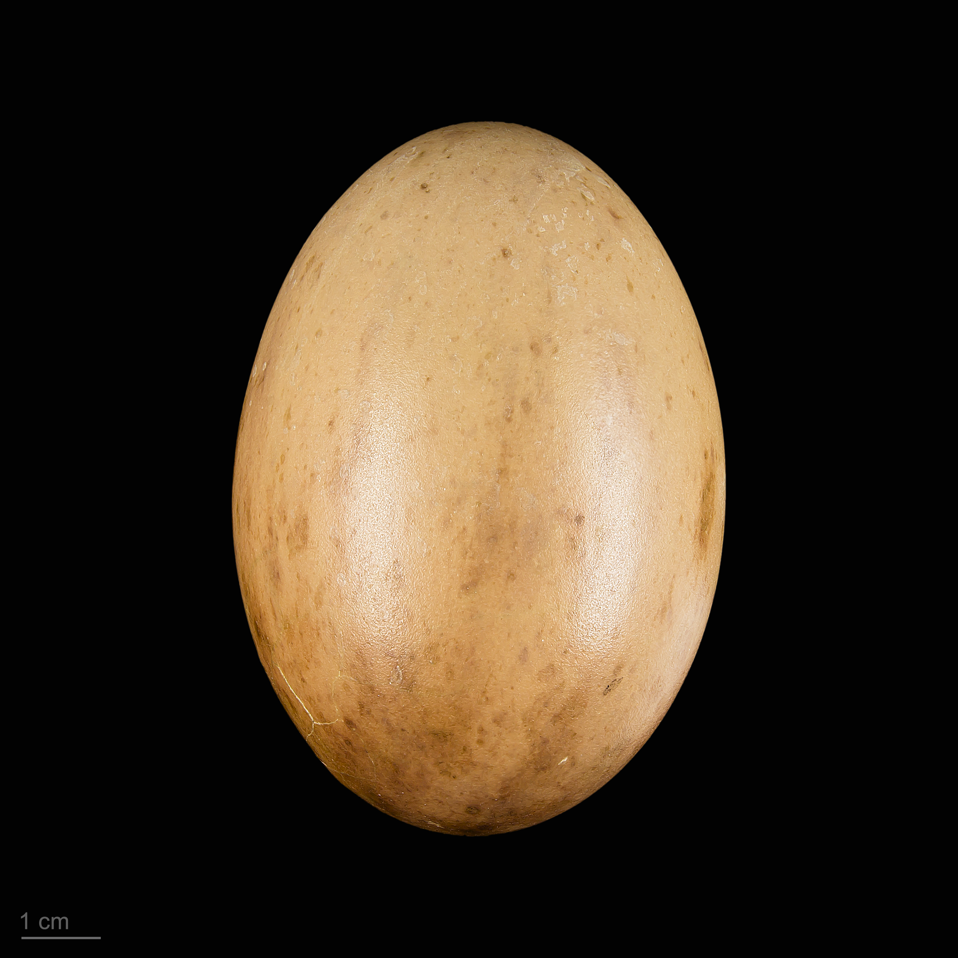 Eggs of Arabian bustard collection of Jacques Perrin de Brichambaut.